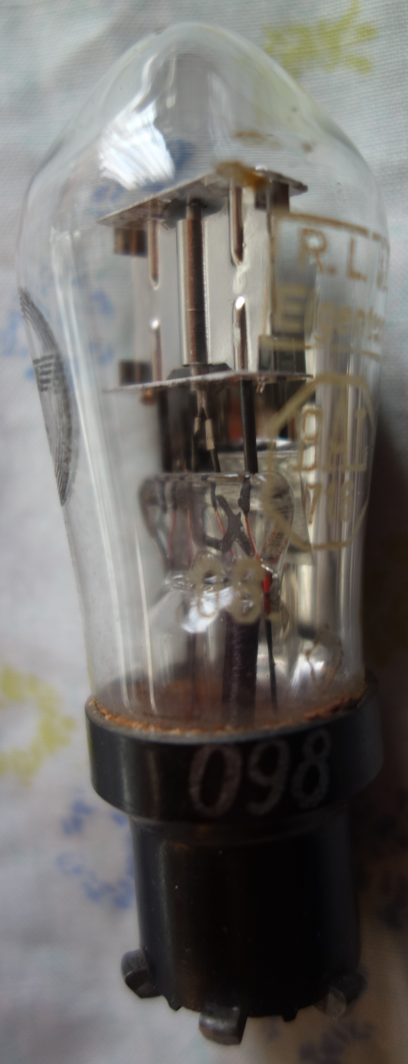 VY2-Telefunken half wave rectifier